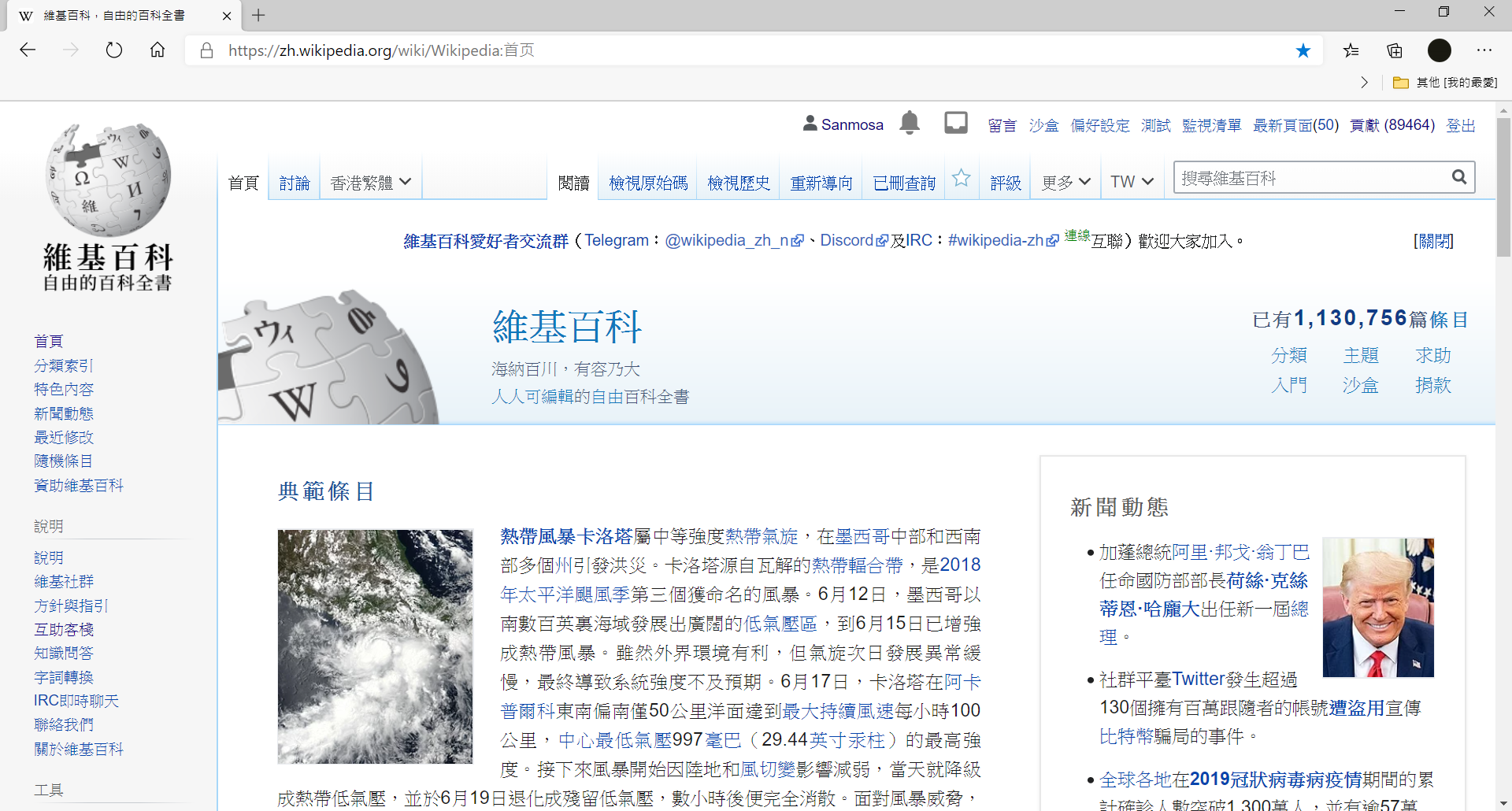 Using Microsoft Edge based on Chromium source code to browse Chinese Wikipedia Main page (zh-hant).